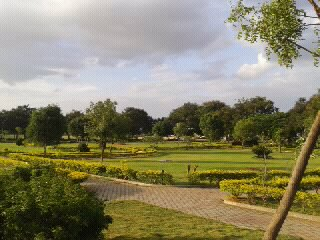 Garden of PES Institute of Medical Sciences and Research, Kuppam, India